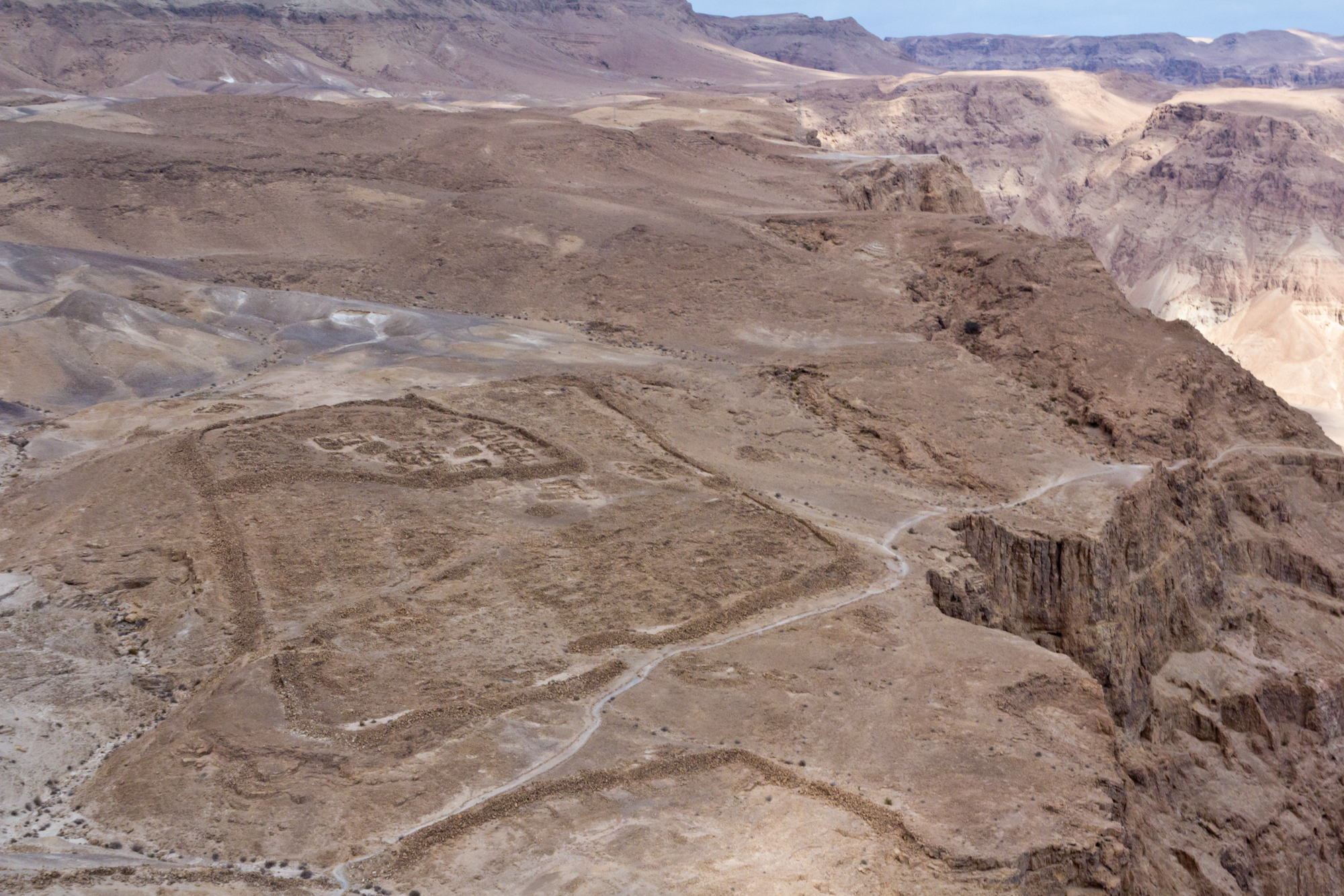 Roman siege camp F and section of Roman circuvallation wall at Masada